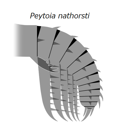 Frontal appendage of the radiodont species Peytoia nathorsti (formerly Laggania cambria).